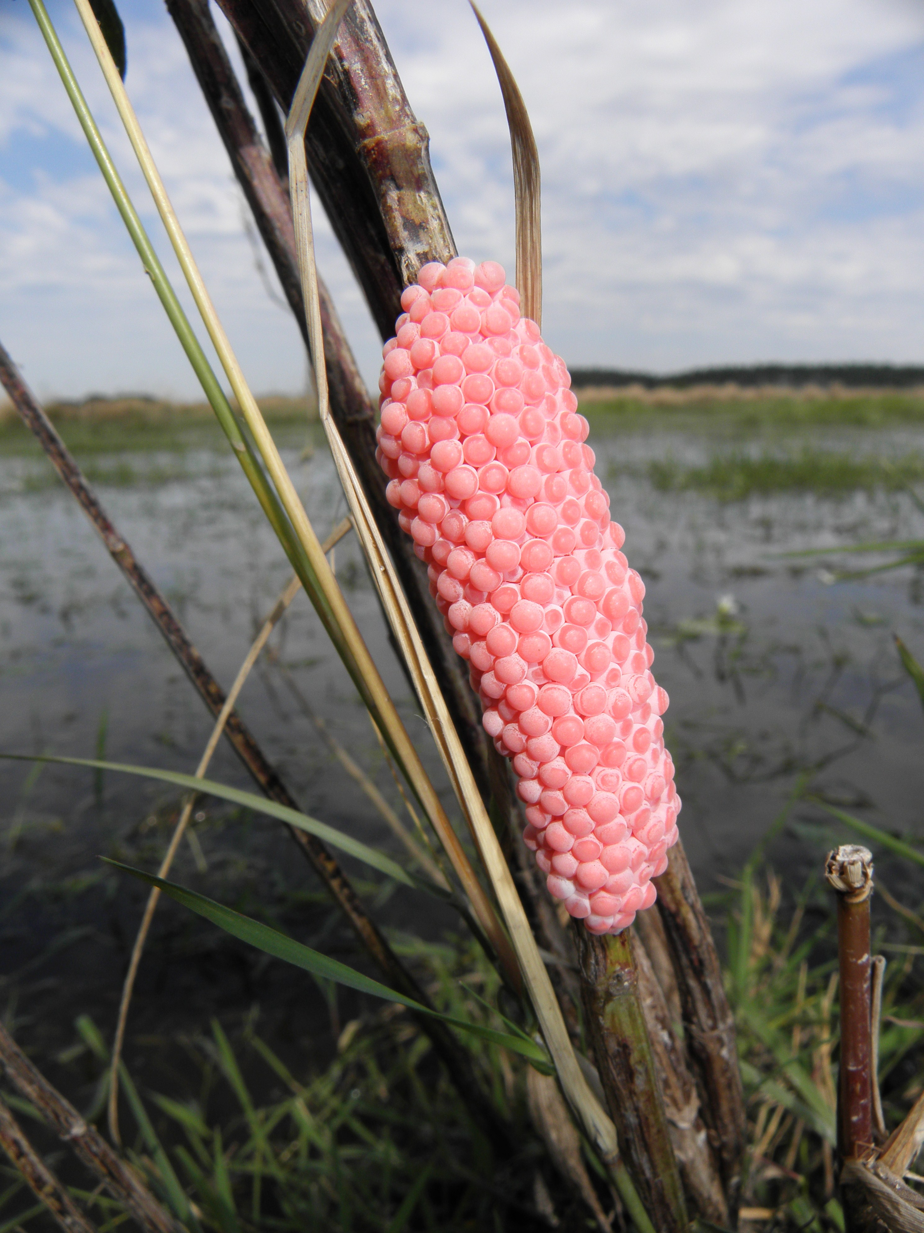 Channeled applesnail (Pomacea canaliculata) eggs.